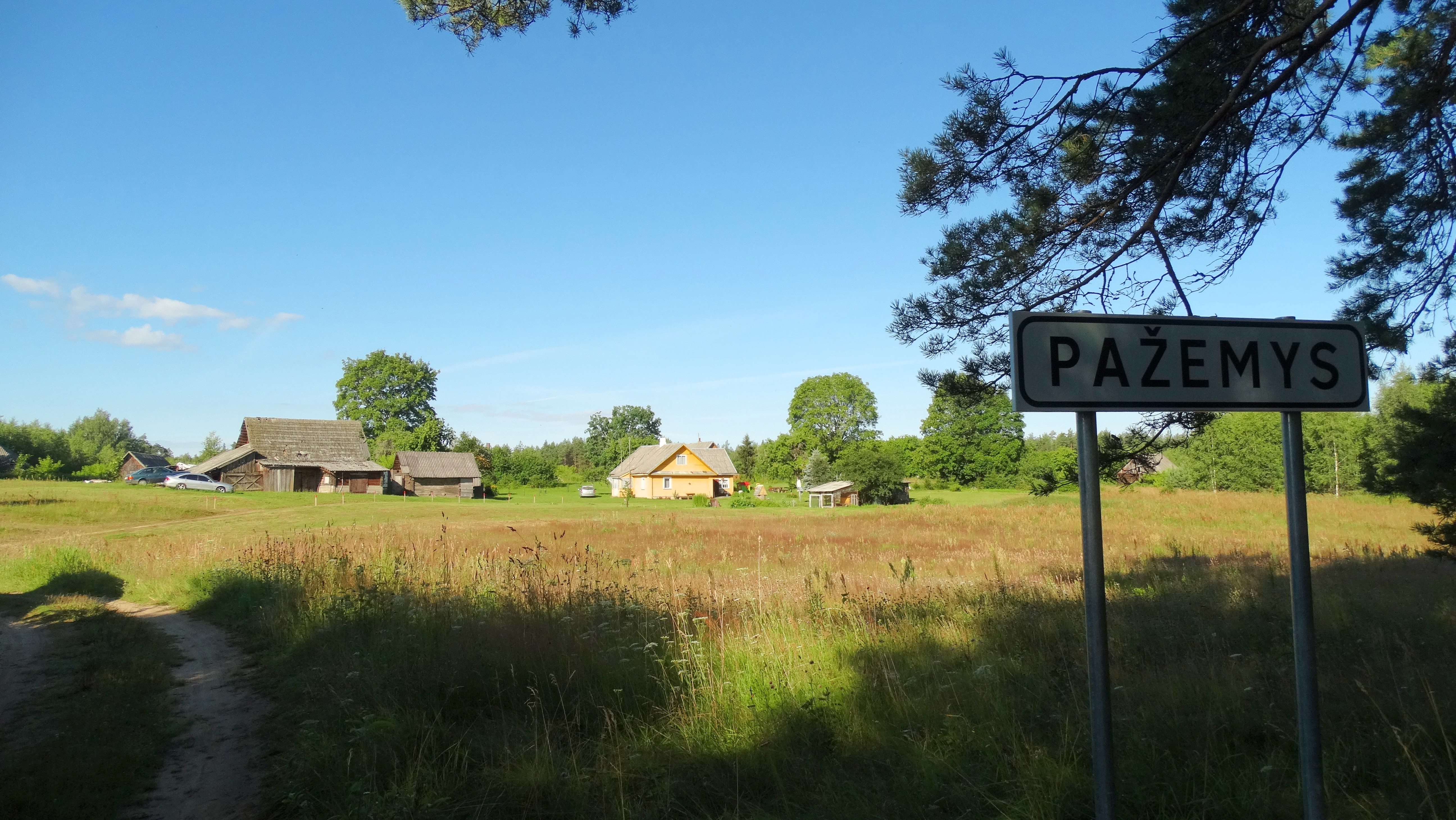 Pažemys, Švenčionys district, Lithuania